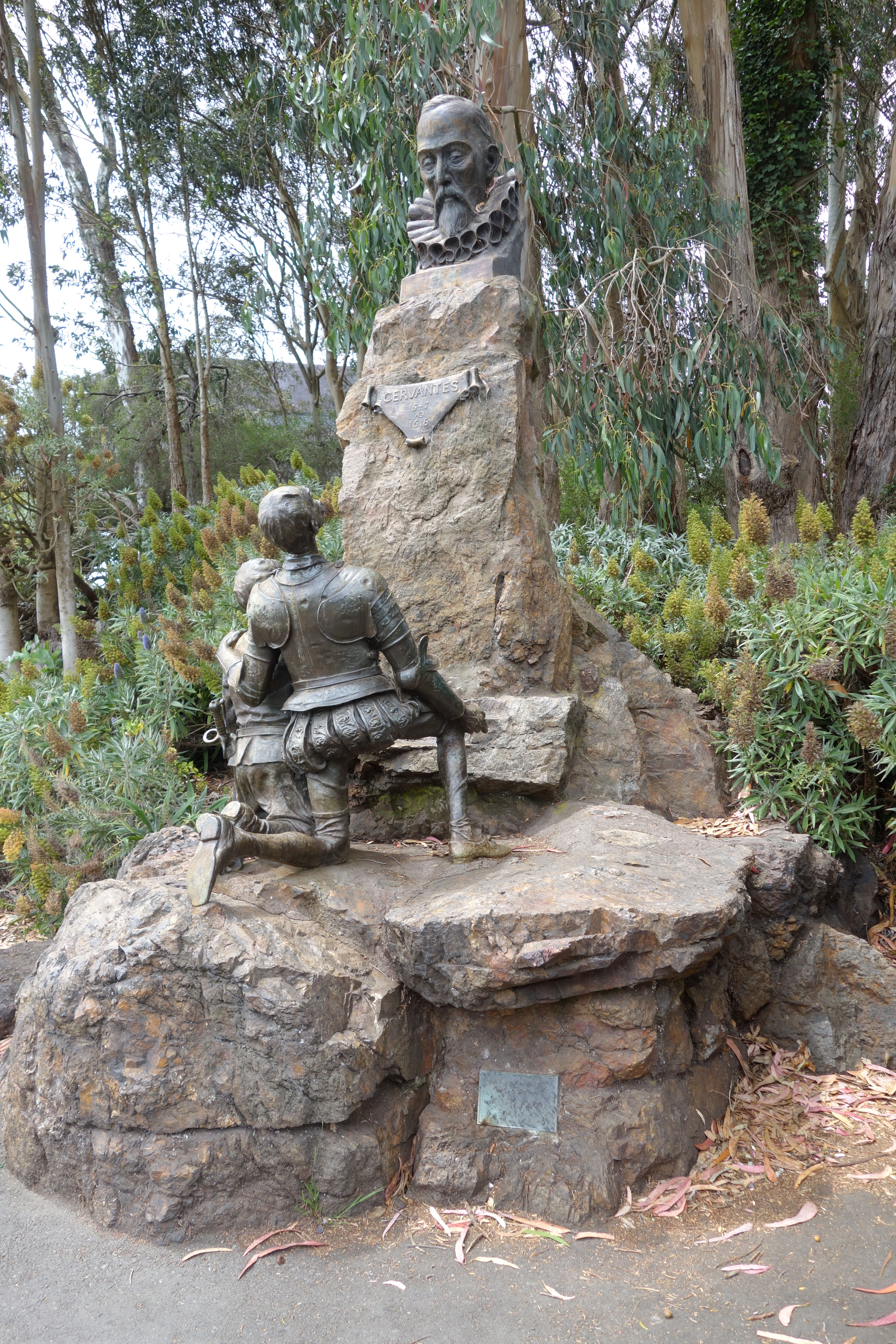 Miguel de Cervantes Memorial by Jo Mora, presented to city on Sept 3, 1916 - Golden Gate Park, San Francisco, California. This artwork is in the public domain because it was first published in the United States before 1923.